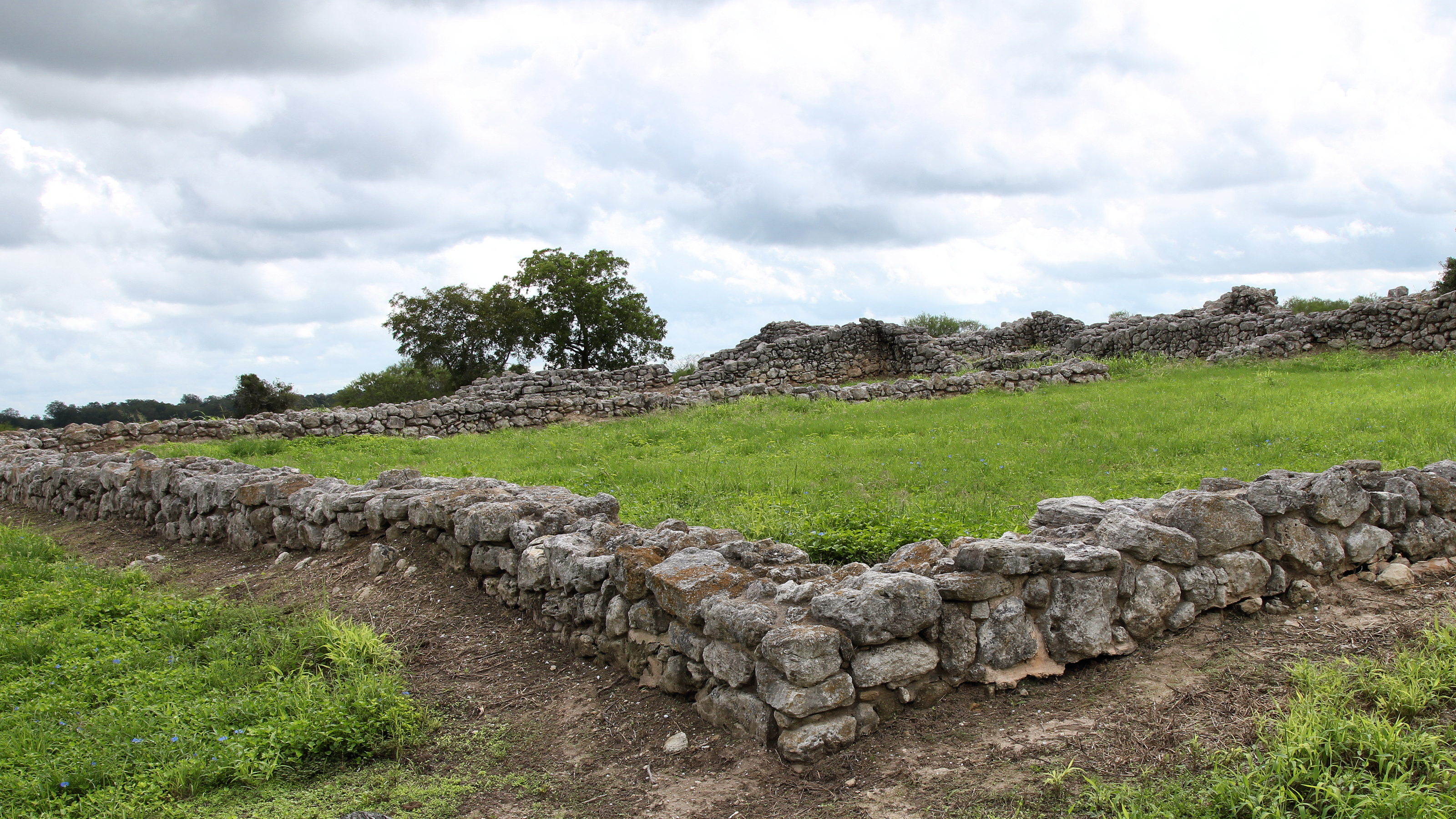 The ruins of Mission Nuestra Señora del Rosario in Goliad County, Texas, United States.